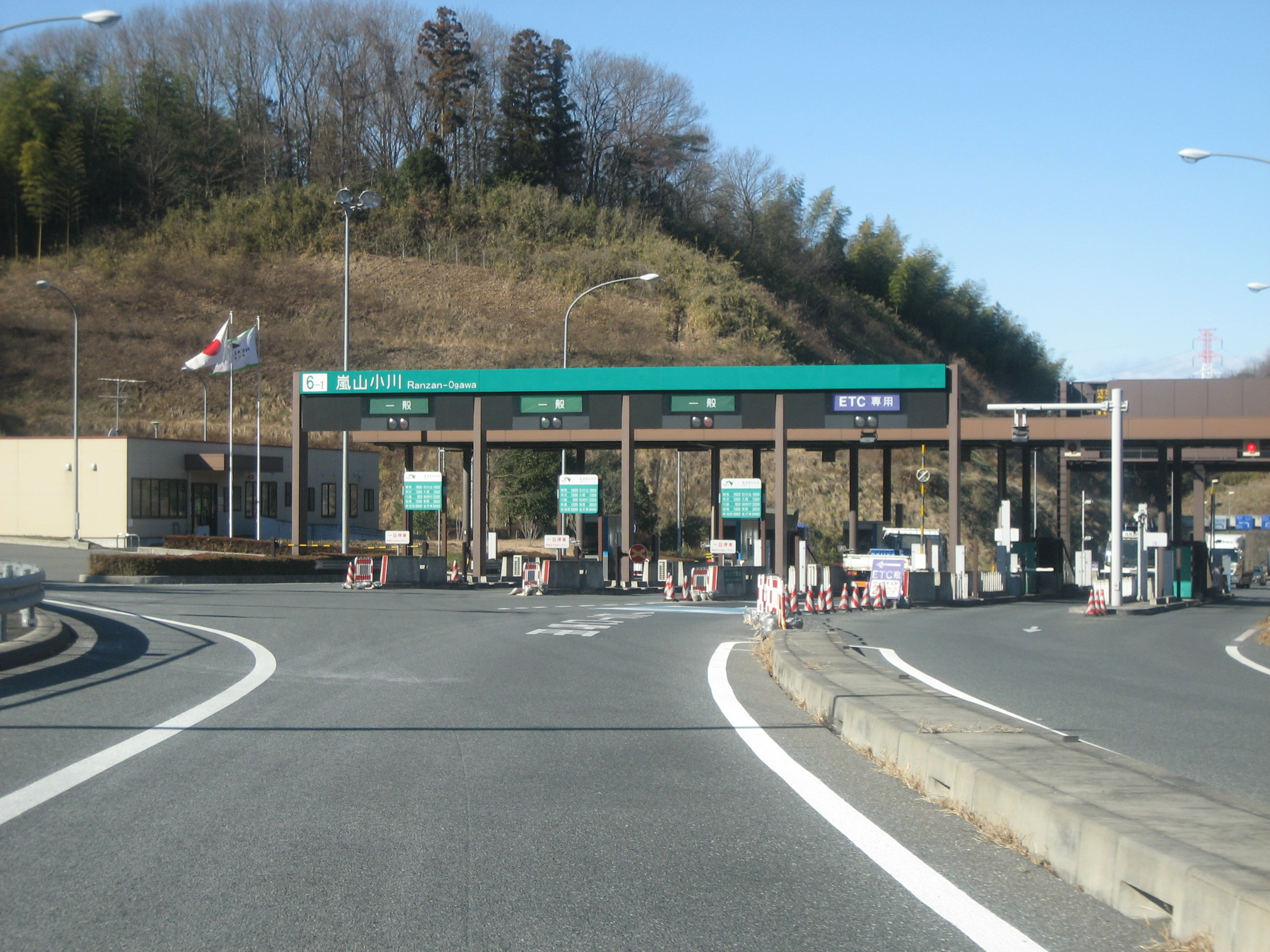 Toll gates at Ranzan-Ogawa Interchange on the Kan-etsu Expressway